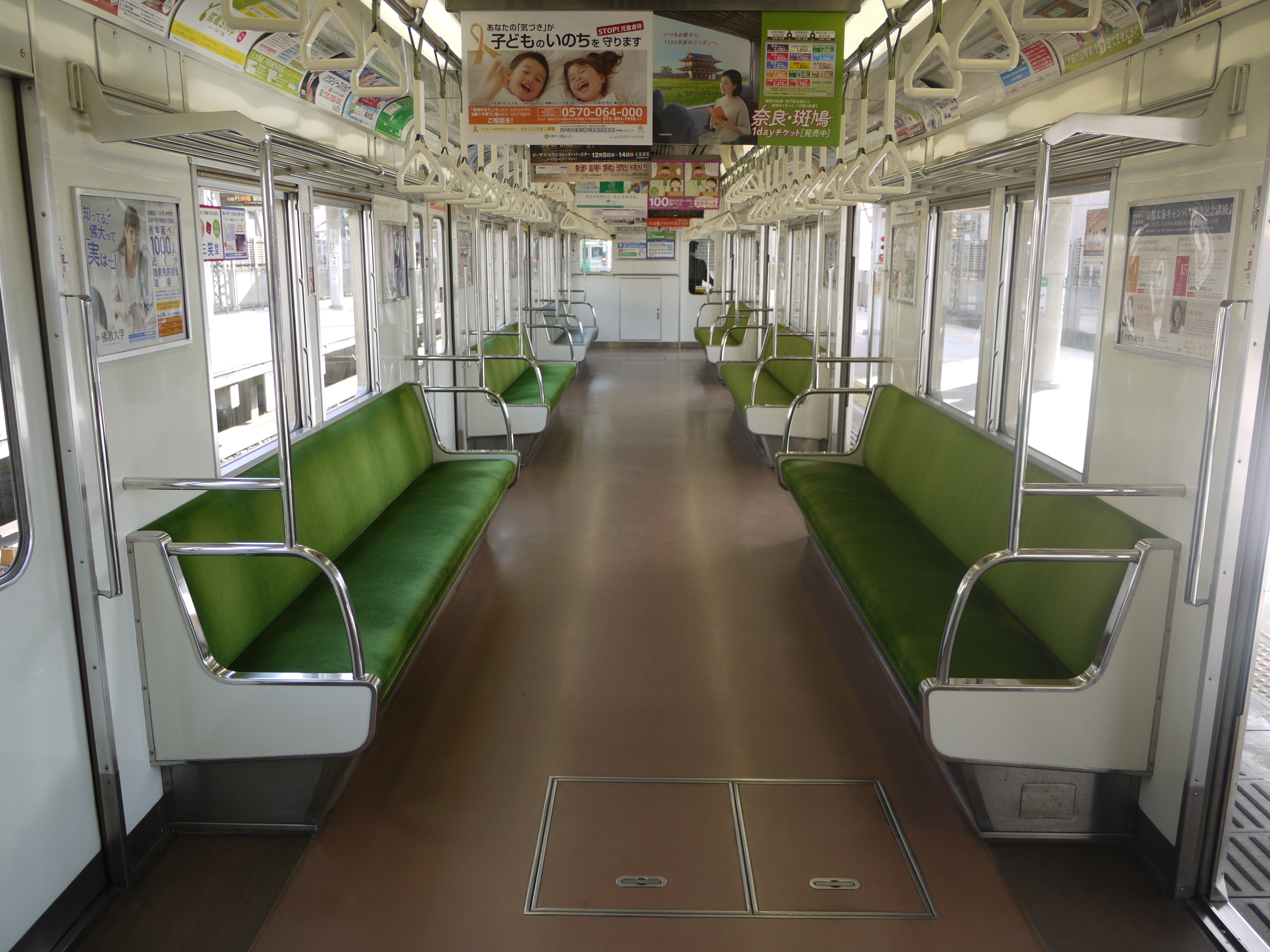 Inside Kyoto subway 10 series